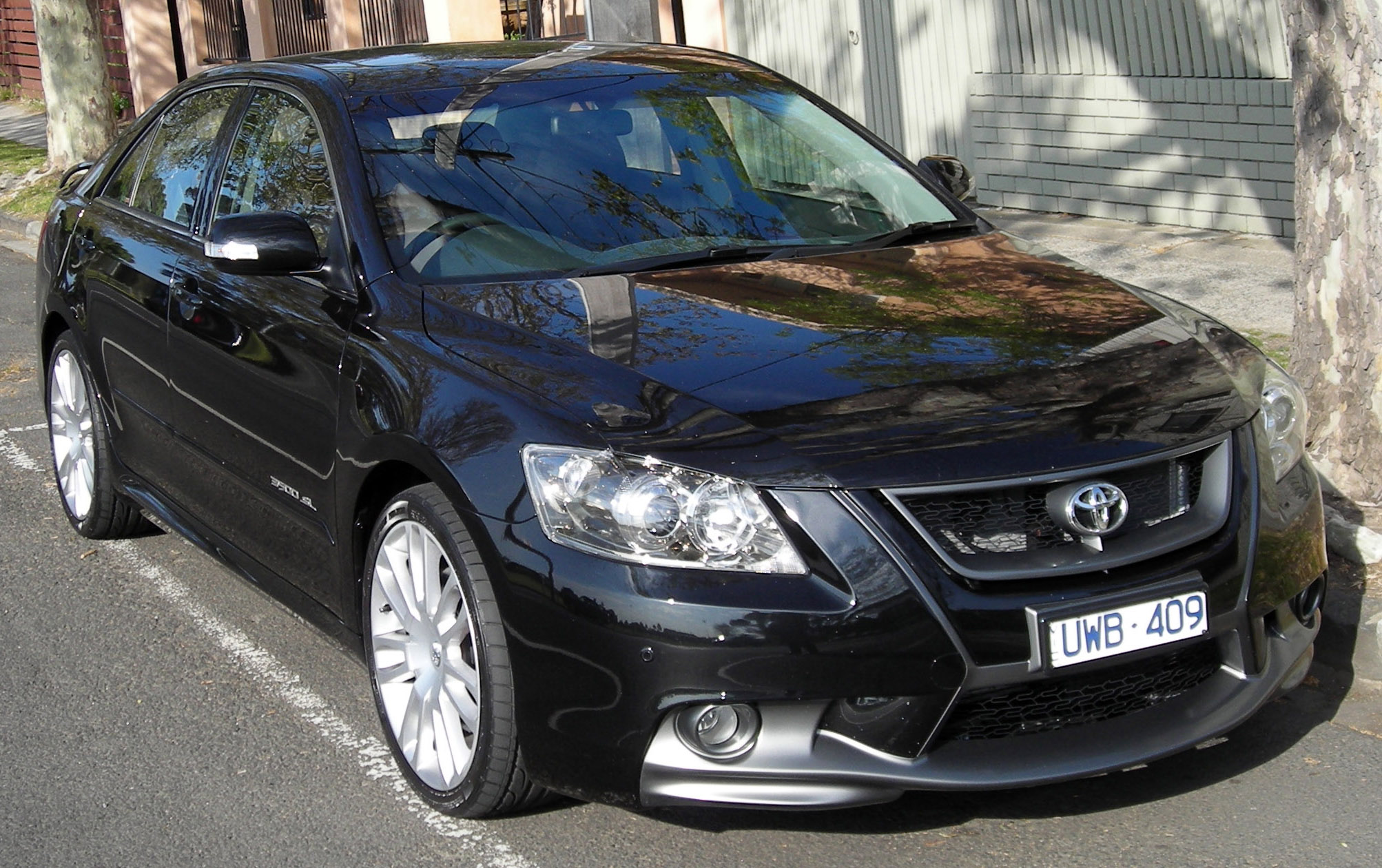 2007 TRD Aurion (GSV40R) 3500SL sedan. Photographed in Victoria, Australia.